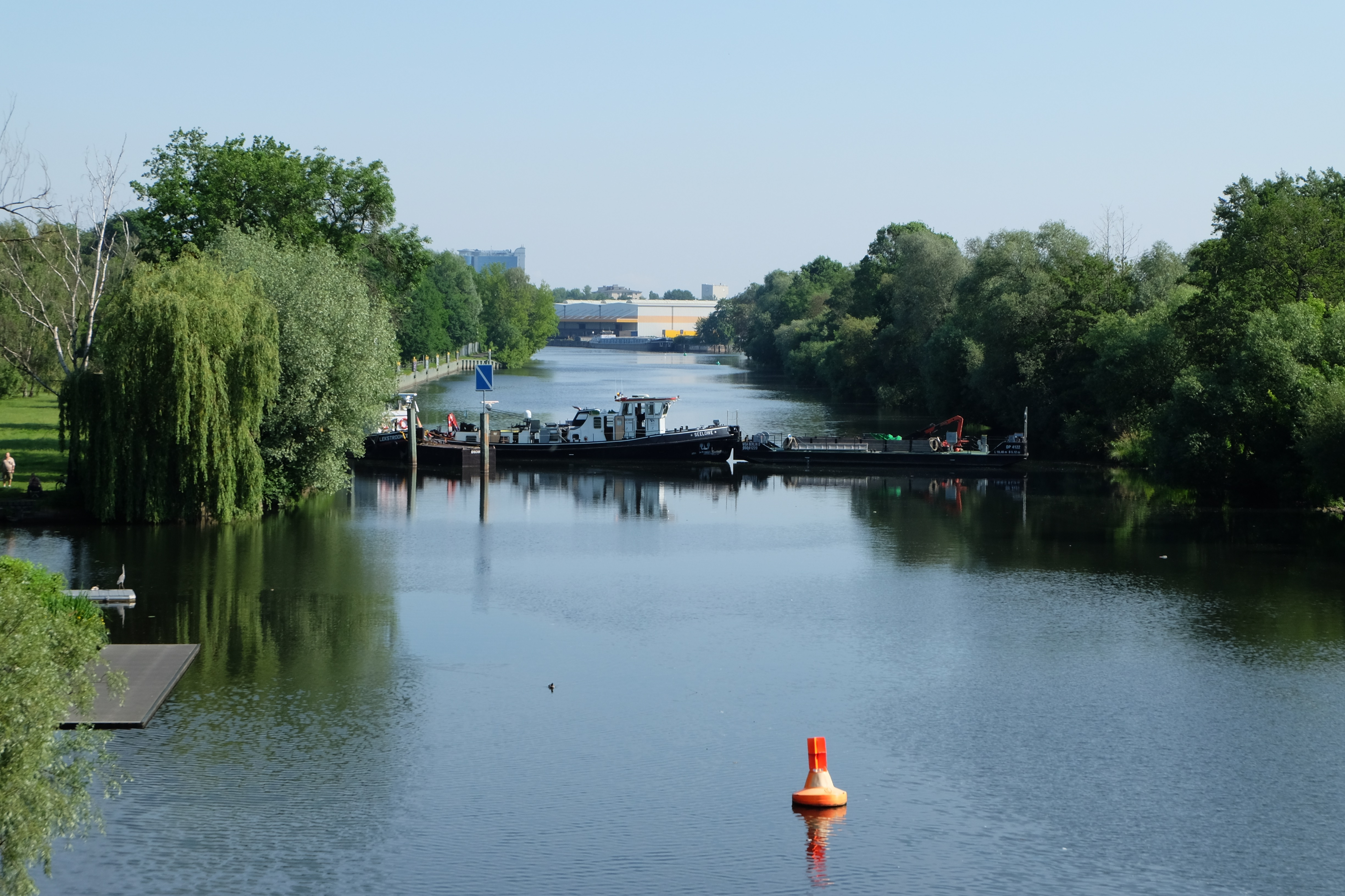 Frey-Bridge Berlin-Spandau. View to north: Blocking the Havel north of the bridge for installation of the central piece on June 3, 2016